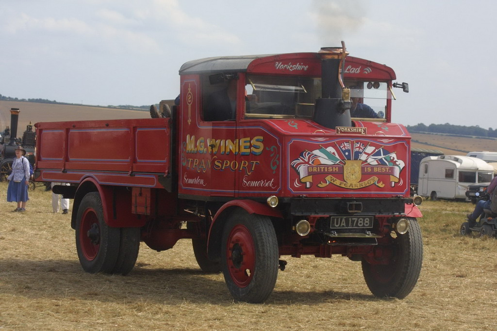 yorkshire gold